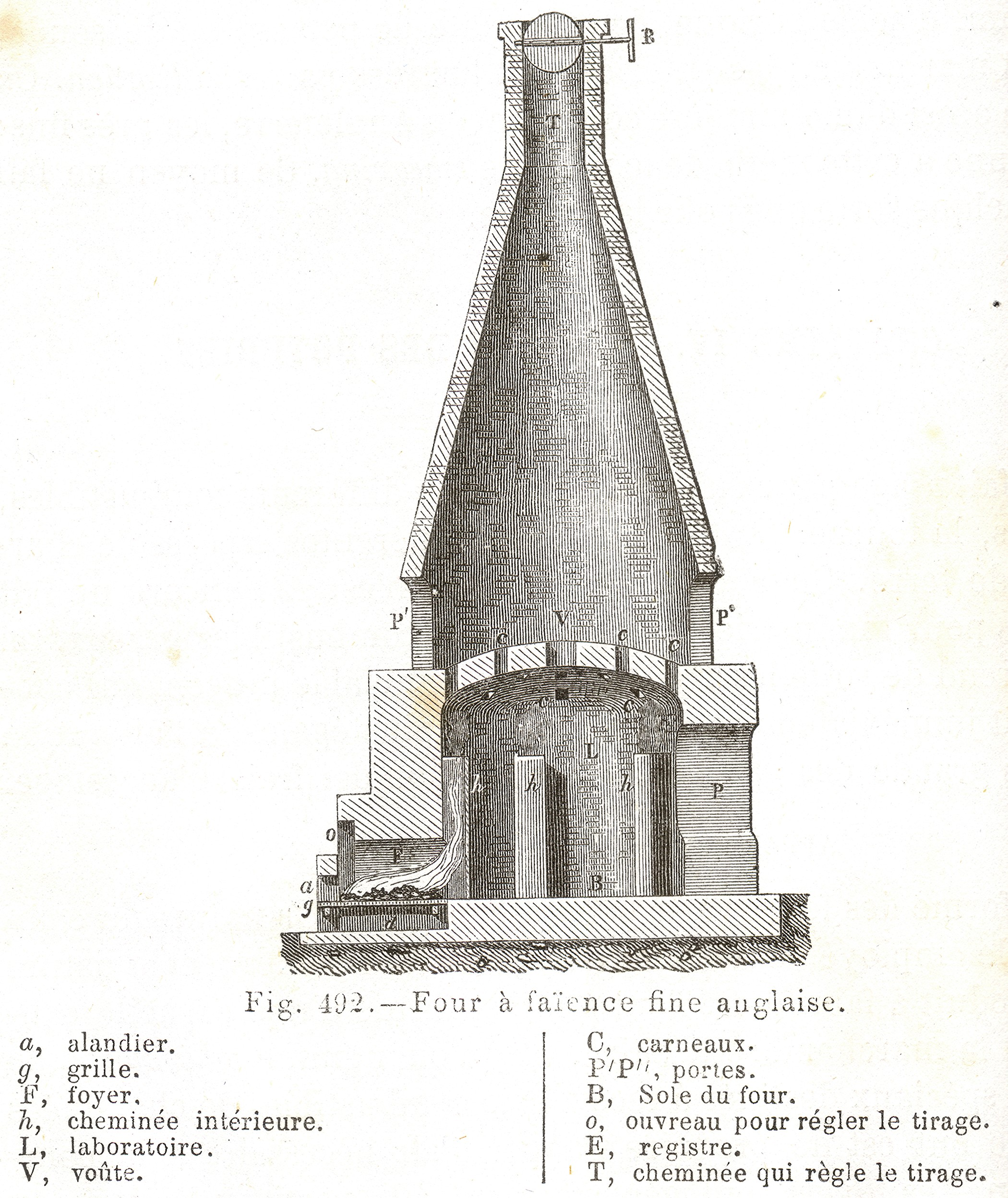 Furnace for "English earthenware". Picture scanned in : Dictionnaire de chimie industriel (Dictionary of industrial chemistry) (Barreswil, A. Girard) 1864, tome 3, page 306.